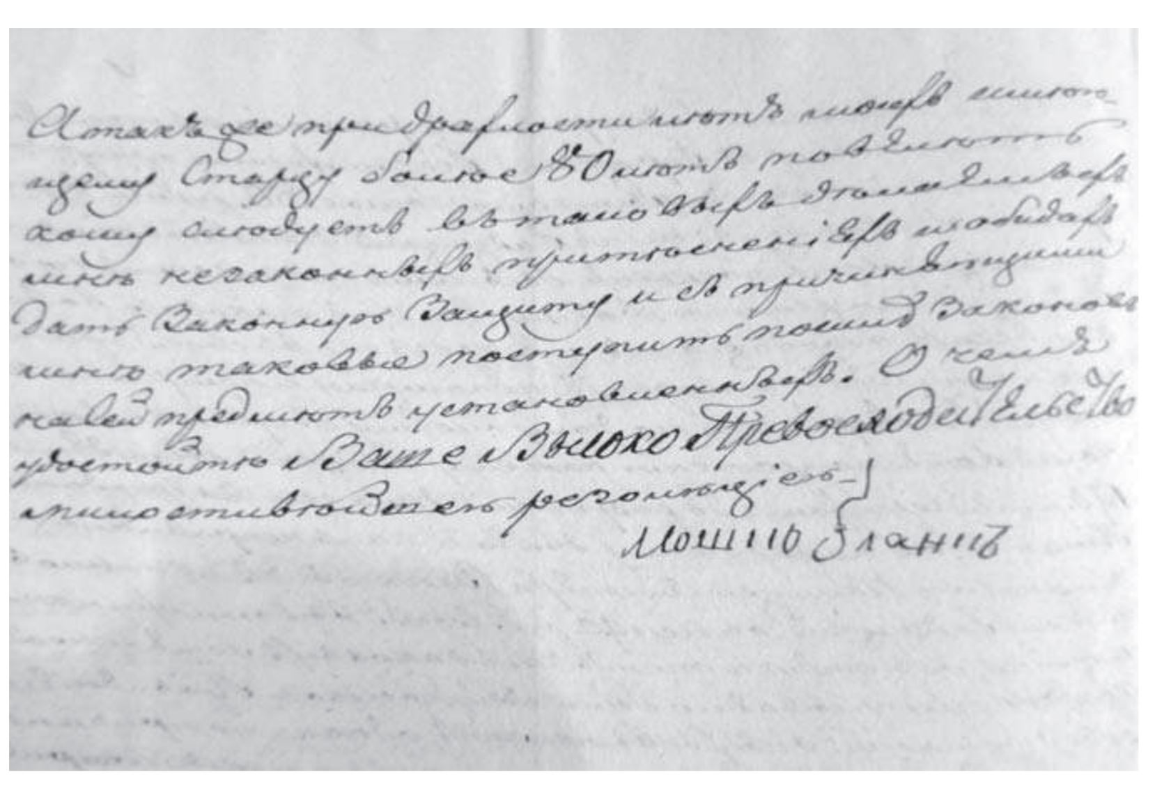 Moshko Blank’s signature in Russian at the bottom of his complaint of the arbitrary decision of the provincial court. Courtesy of TsDIAU, f. 442, op. 150, spr. 82, l. 2b.